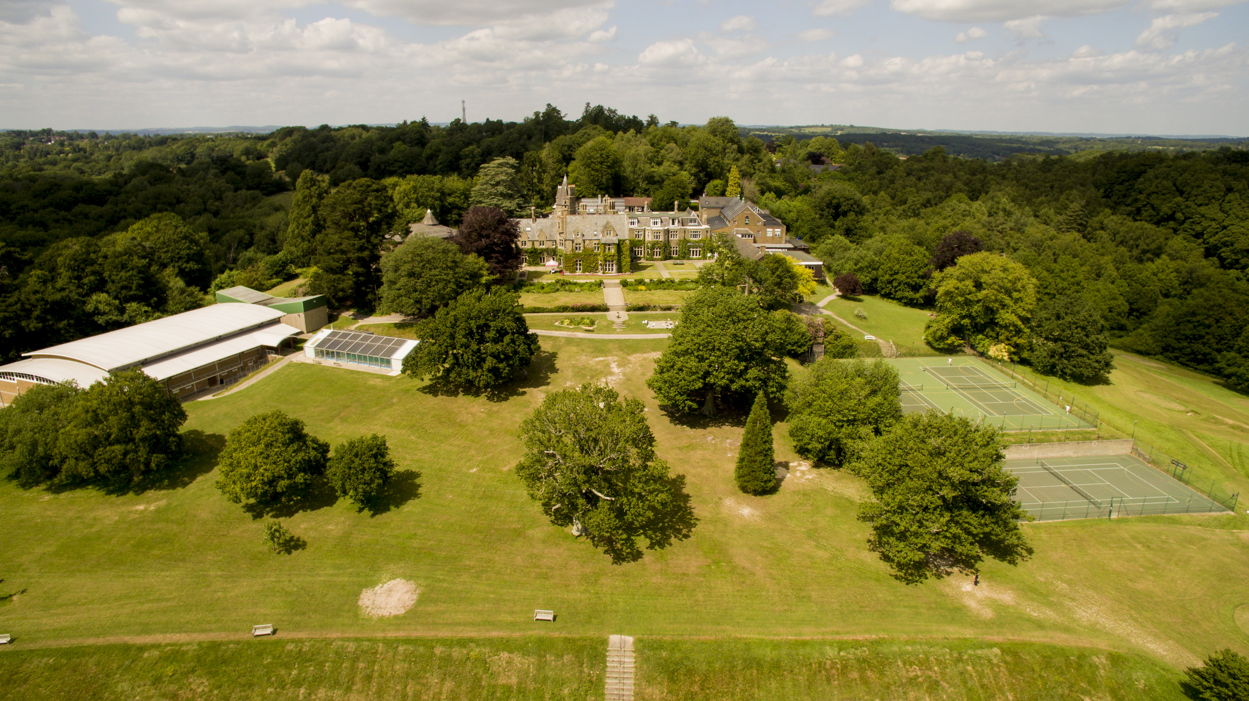 This is image was taken in June 2015